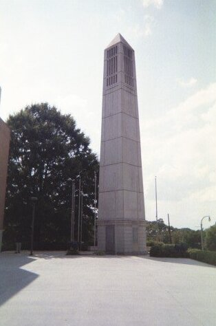 This is a photo I personally snapped while living at the College.